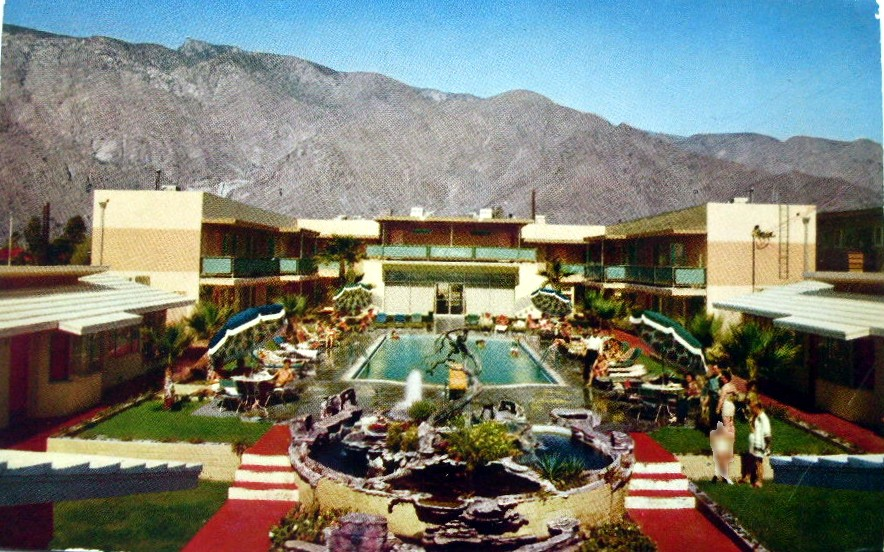 Color photochrome postcard depicting Hotel La Fonda in Palm Springs, California in the 1950s. This postcard is postmarked from Palm Springs, California on March 9, 1955. The back of the postcard reads: HOTEL LA FONDA Designed for the Discriminating Palm Springs' newest and most modern hotelFour blocks from the village center.960 North Palm Canyon DrivePalm Springs, CaliforniaTelephone 2033 MIRRO-KROME CARD BY M.S. CROCKER CO., INC., SAN FRANCISCO, CALIF.